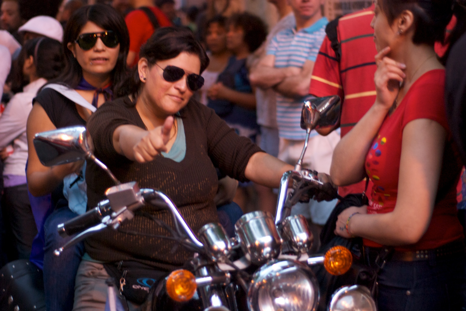 LGBT Marcha del Orgullo 2011